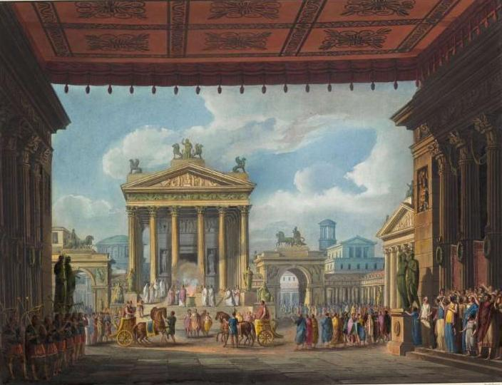 Set design for Act 1, Scene 6 of Giovanni Pacini's opera L'ultimo giorno di Pompei (production at La Scala Milan, 1827). The scene depicts the forum of Pompeii with the Temple of Jupiter in the background.